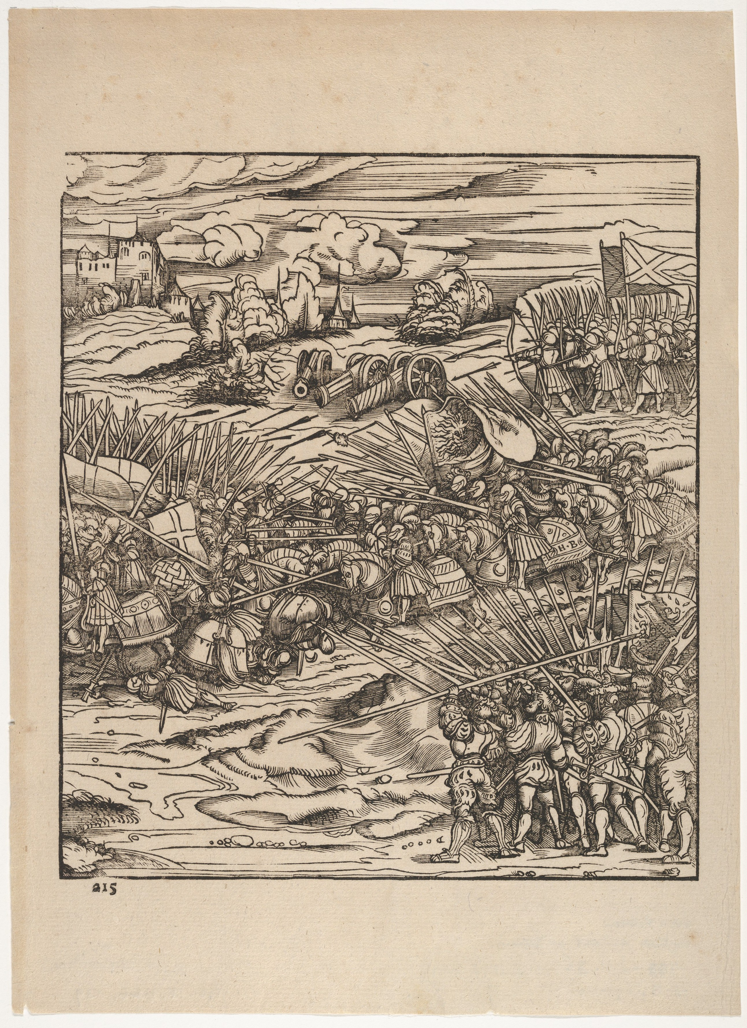 Print; Prints